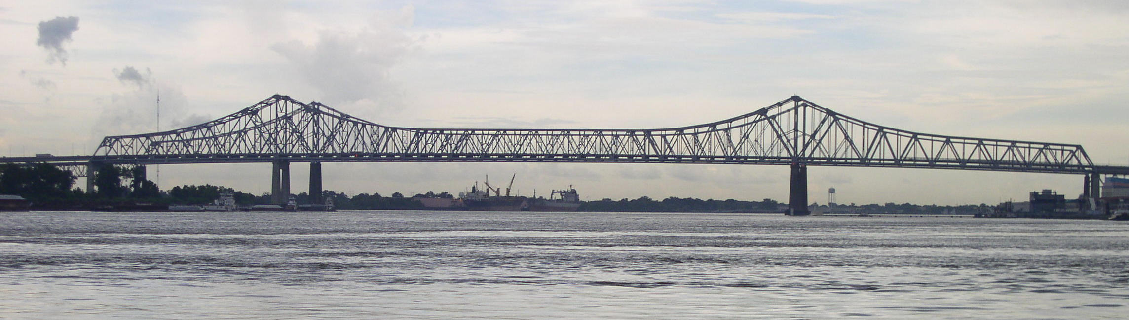 Crescent City Connection, Mississippi, New Orleans, by Rafal Konieczny, 2004